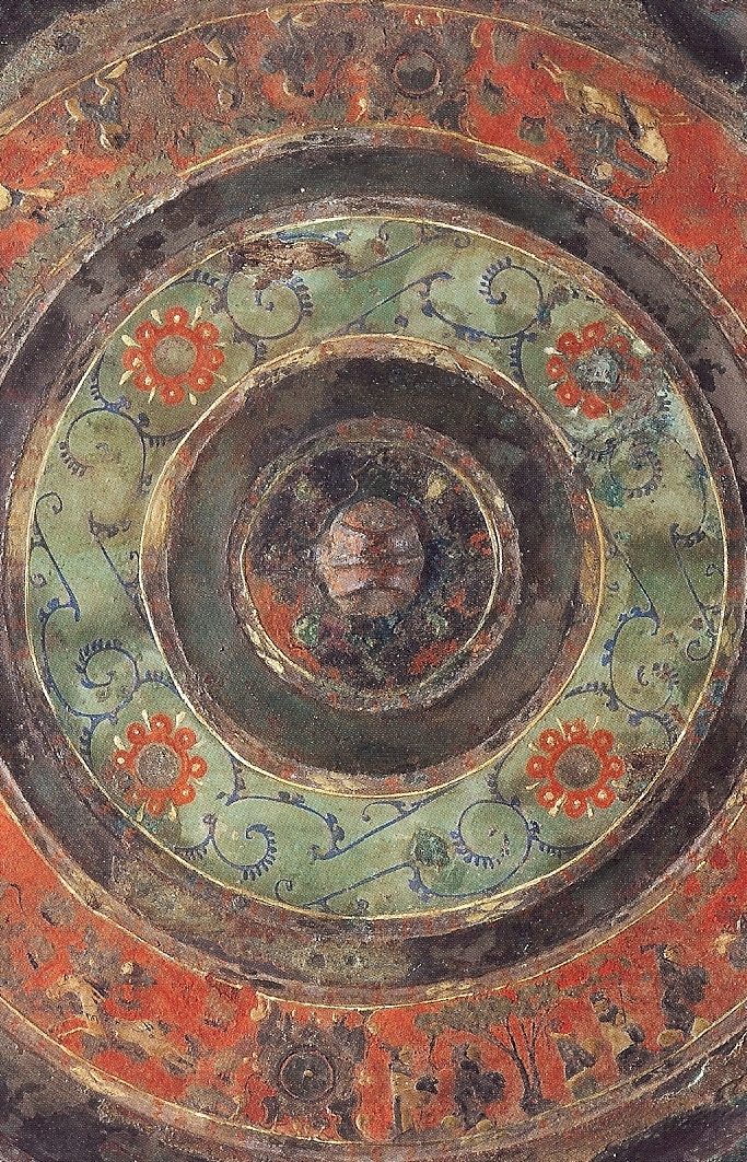 Detail on the backside of a Chinese Western Han Dynasty bronze mirror painted with pigment and designs of flower motif and scenes of daily life during the 2nd century BC.